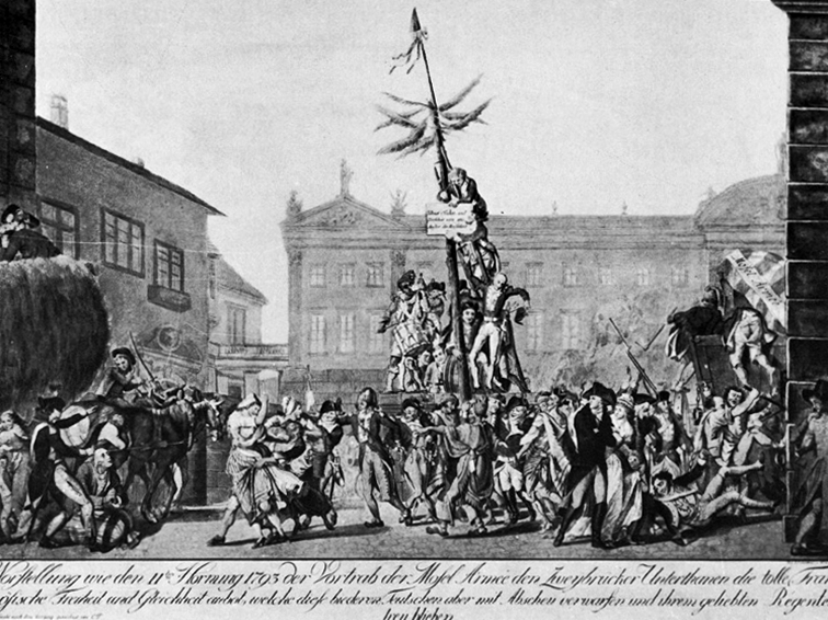 French soldiers and local citizens erecting a Freedom Tree in a public square of Zweibrücken on 11 February 1793. Contemporary engraving.